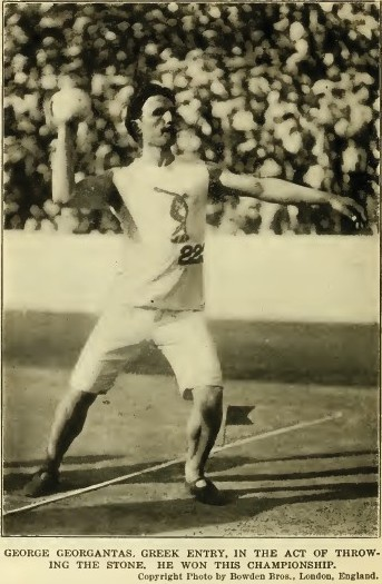 The Olympic games at Athens, 1906 (1906) Author: Sullivan, James Edward, 1862-1914 Subject: Olympic Games (1906 : Athens, Greece) Publisher: New York, American Sports Publishing Company Language: English Call number: 7740541 Digitizing sponsor: Sloan Foundation Book contributor: The Library of Congress Collection: americana [Open Library icon] This book has an editable web page on Open Library.